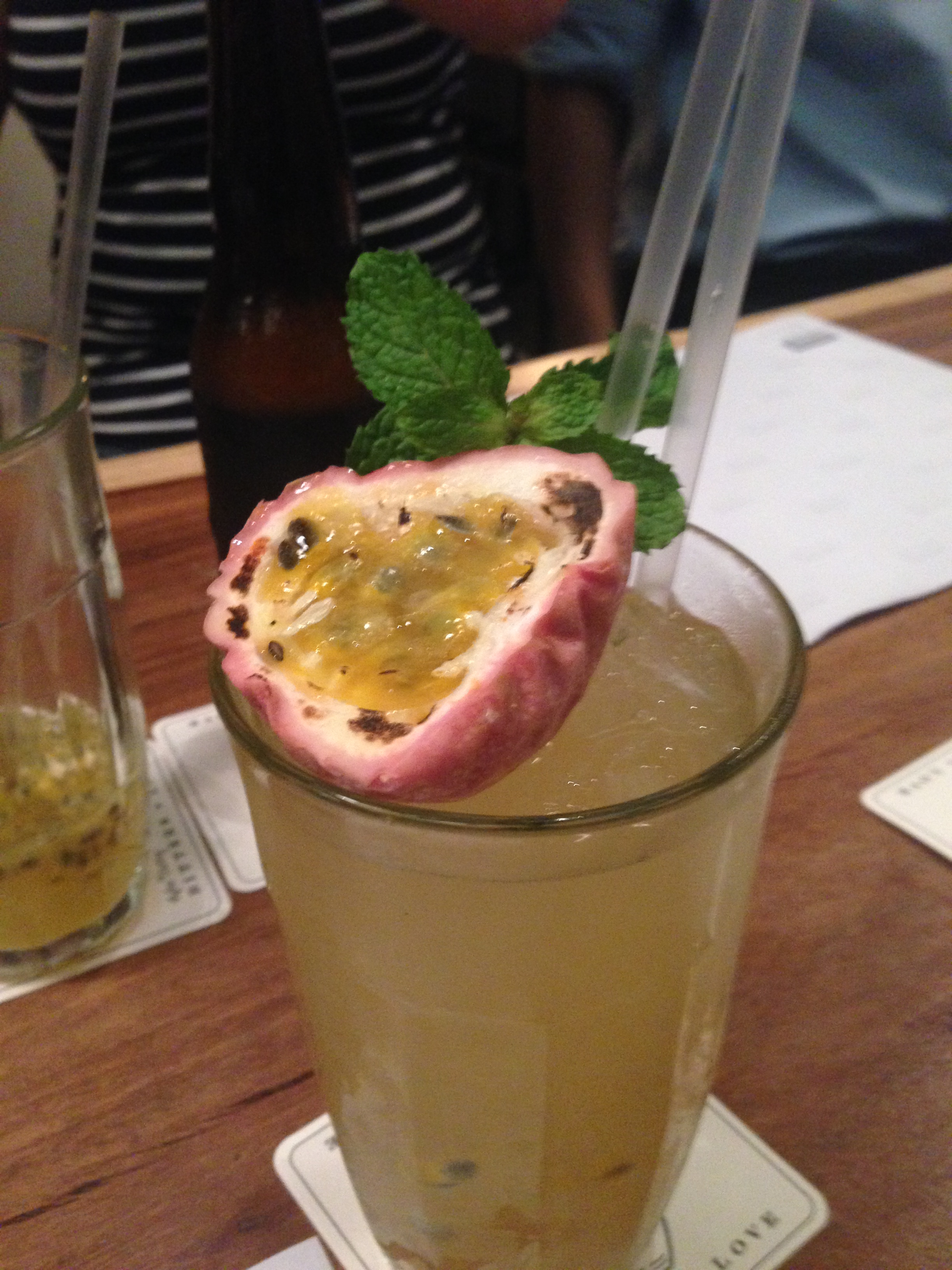 A passionfruit (Passiflora edulis) drink at Shoebox Canteen, Singapore.